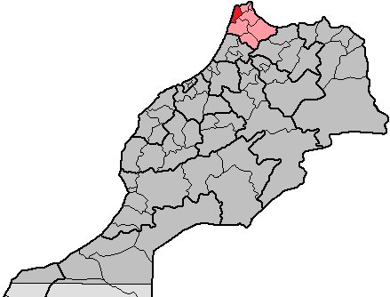 Location of the préfecure Tanger-Assilah within the region Tanger-Tétouan, Morocco. In total, Morocco has 16 regions, subdivided into 62 provinces and 13 prefectures.